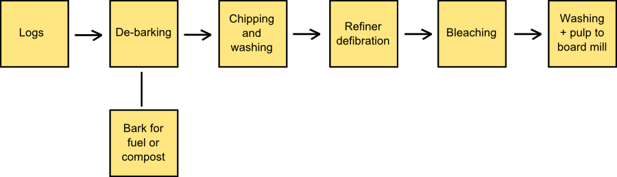 Flow chart showing the mechanical pulping process